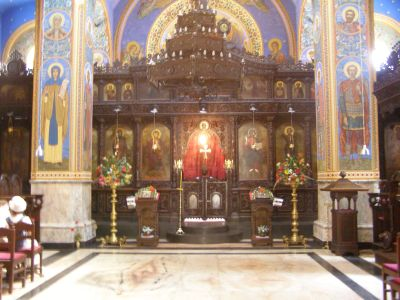 Inside the Orthodox church of St. Petka in Varna, Bulgaria